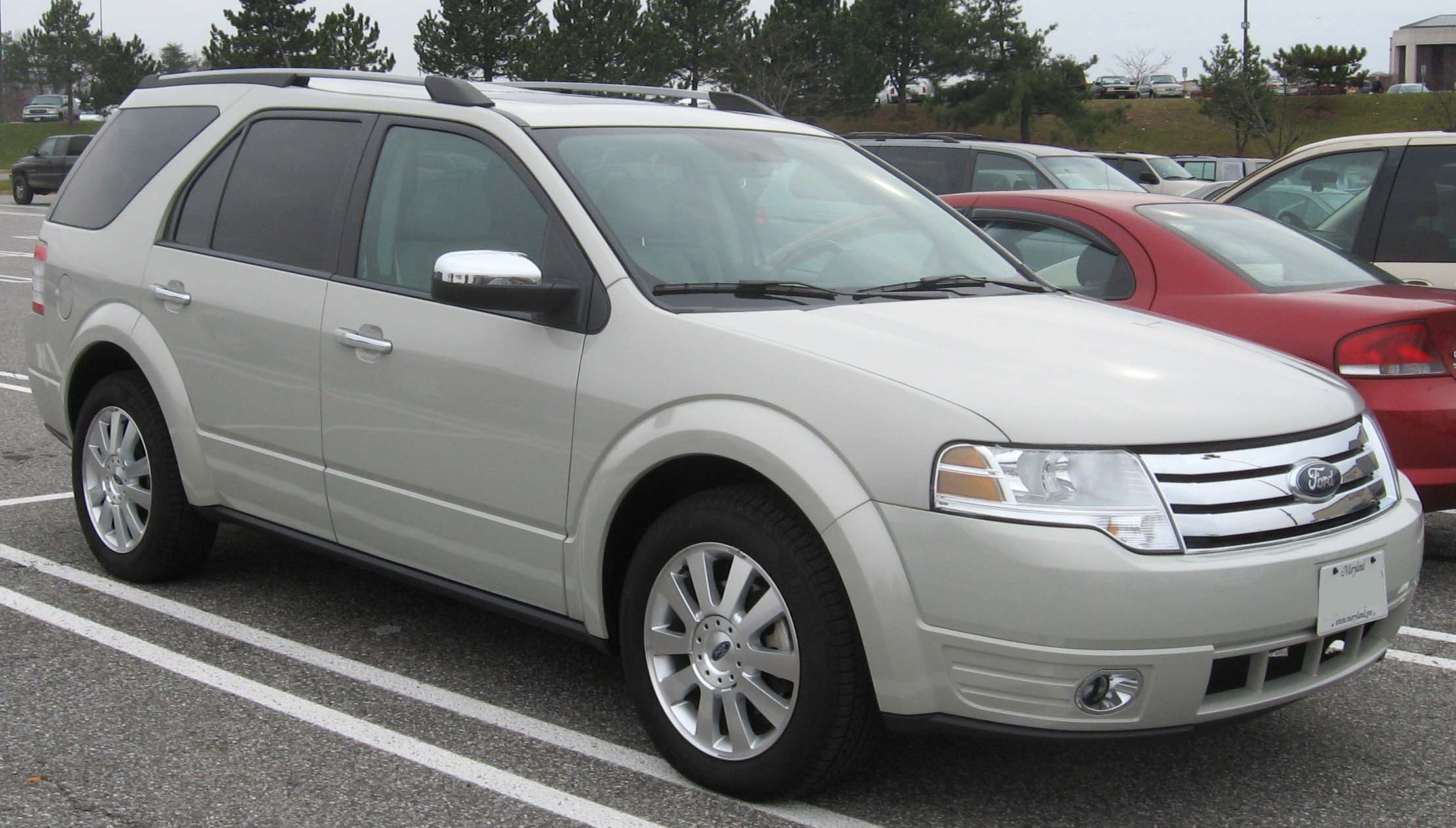 2008 Ford Taurus X photographed in Waldorf, Maryland, USA.